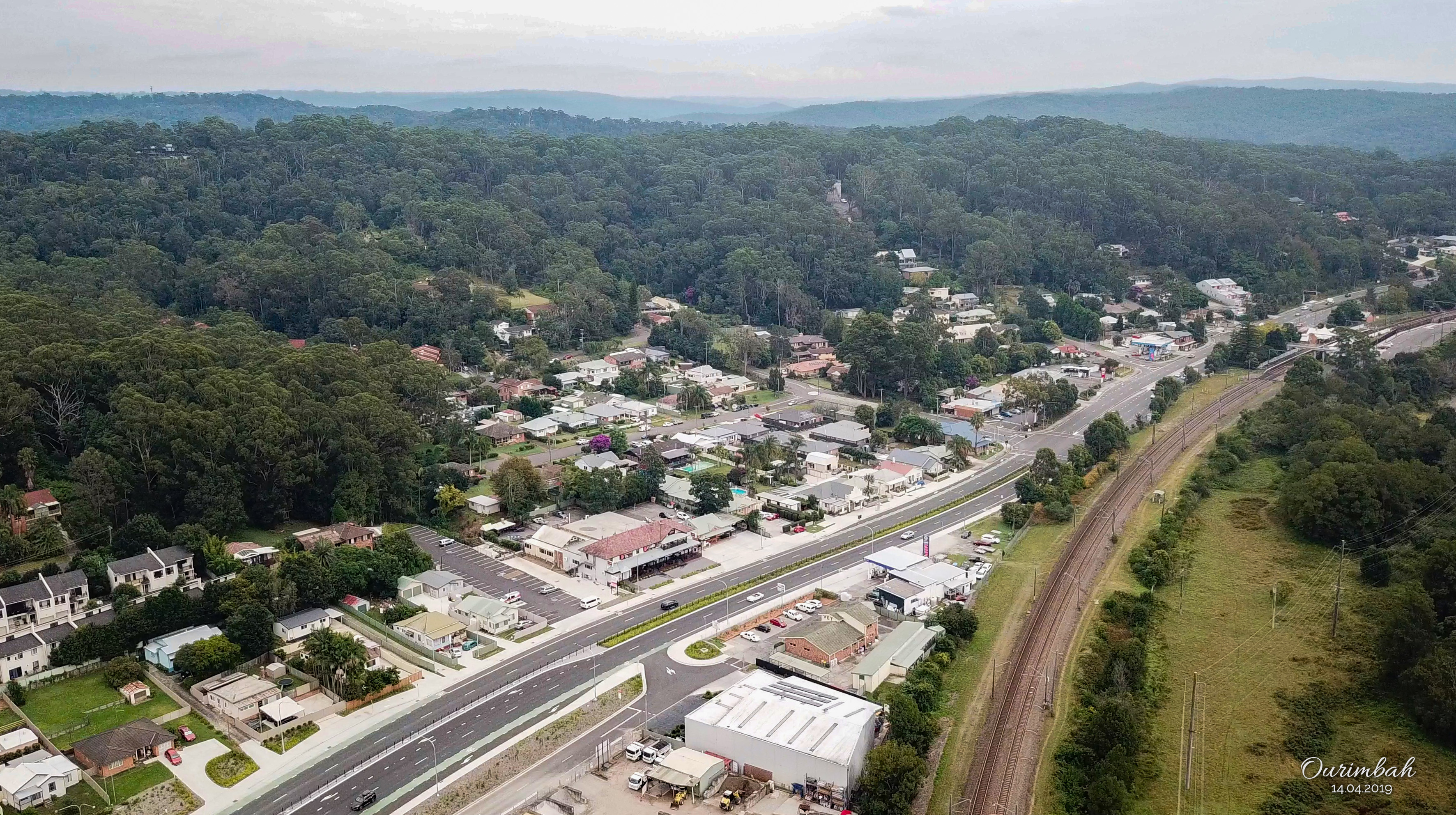 Aerial point of view of Ourimbah township.